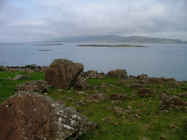 Samalan Island near Inchkenneth, the Isle of Ulva and Mull, Inner Hebrides. A low lying islet with a spot height of 5m. To its left are some fishery pontoons. Ulva can be seen in the background